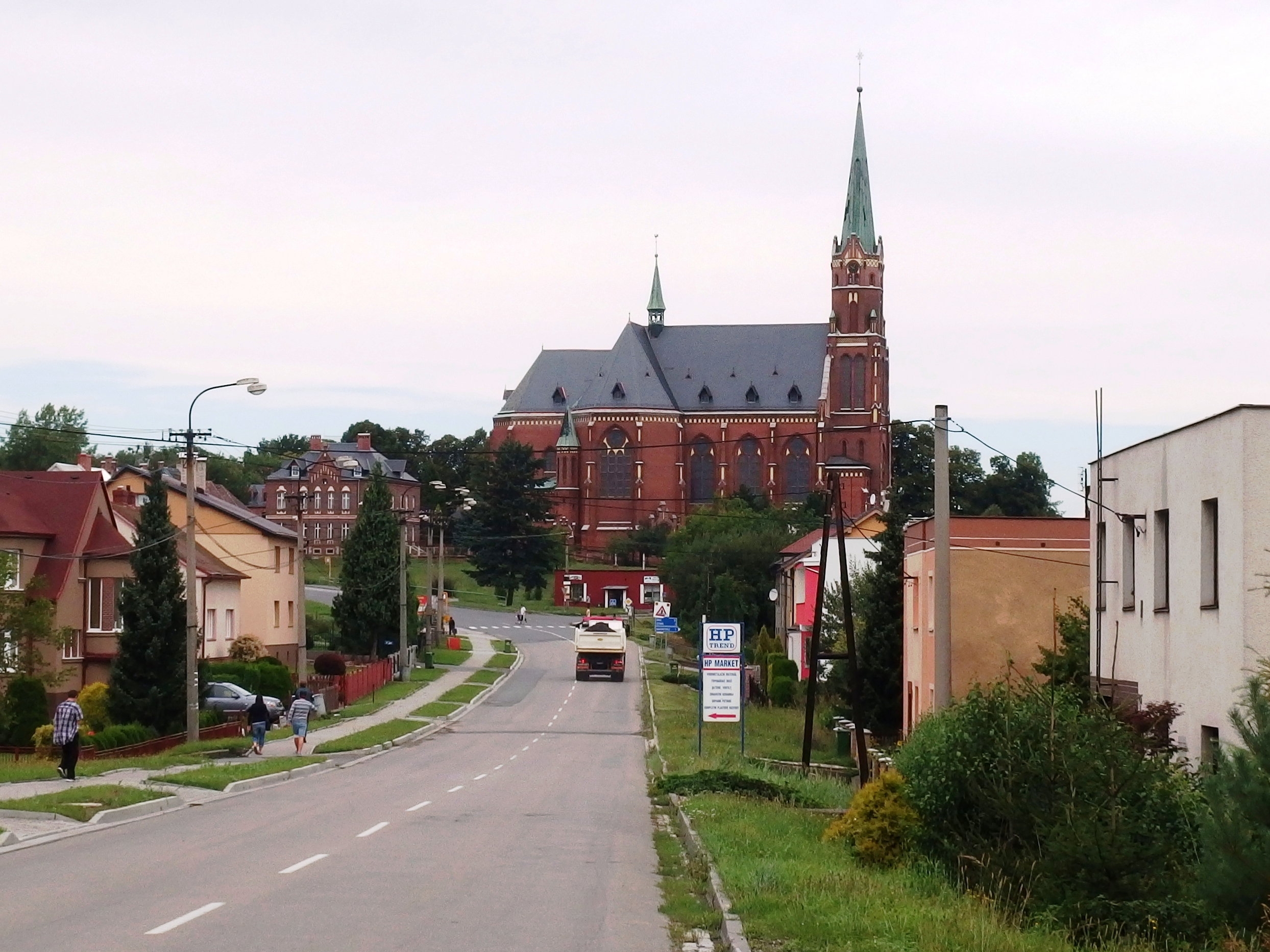 Ludgeřovice, Opava District, Czech Republic.